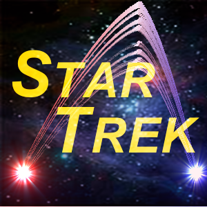 A free image to make a logo not issued from any paramount images, to use in WP Star Trek Projects. This was a mix between "Image:Star Trek Classic logo.svg" and "Image:Out of into deep space.png"